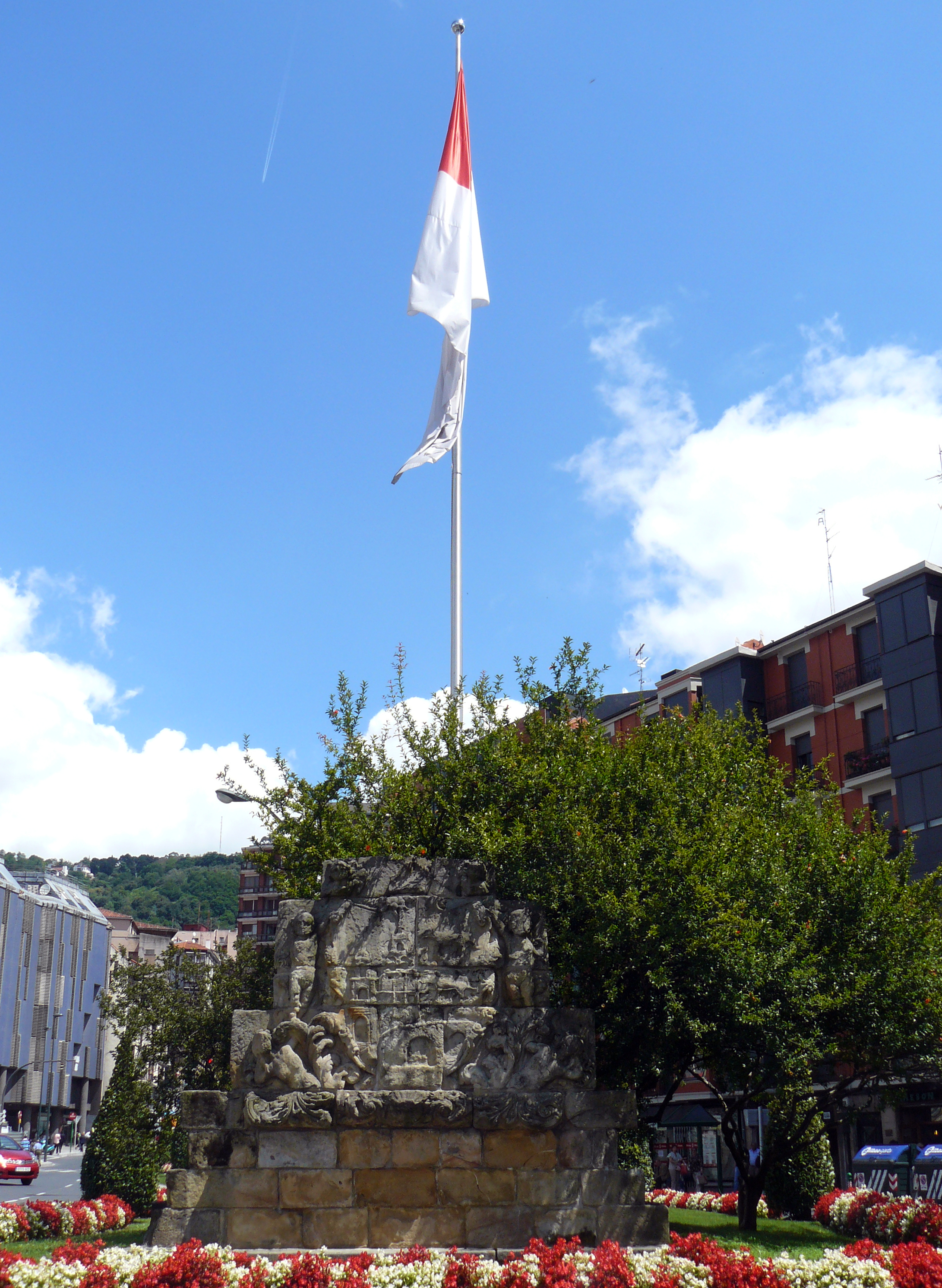 Flag and a 17th century coat of arms of Bilbao, Spain.